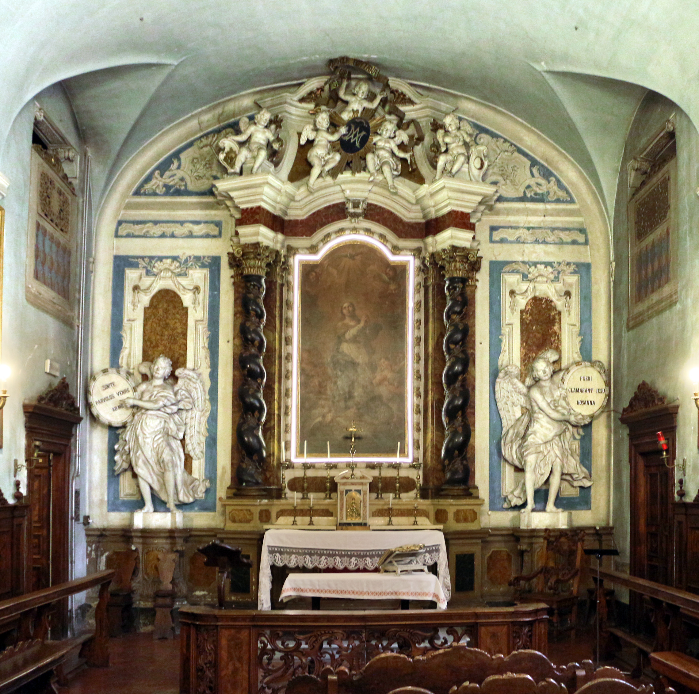 Cappella dei Convittori (Collegio Cicognini)